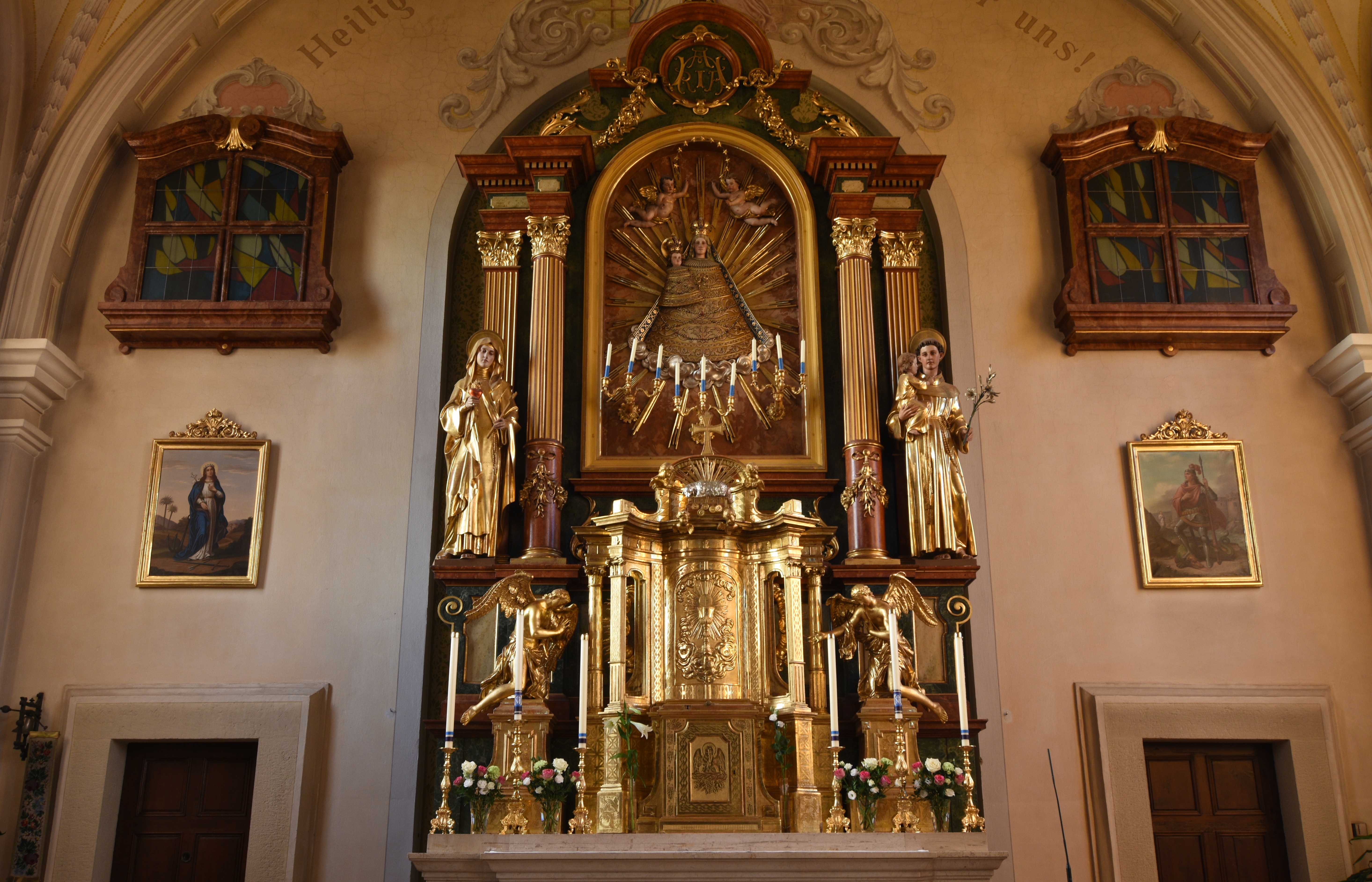 Church Eichkögl